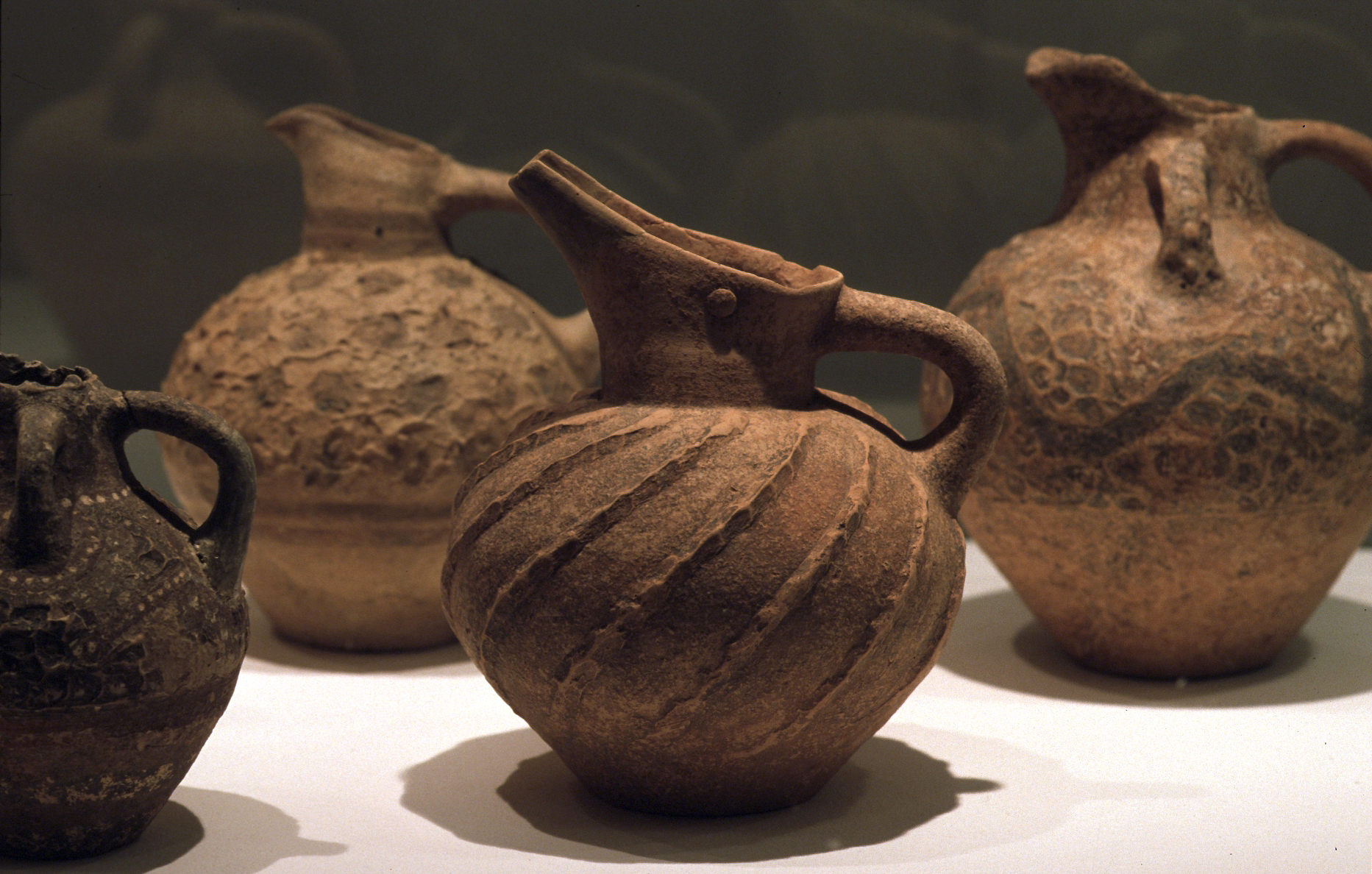 Minoan Ceramic